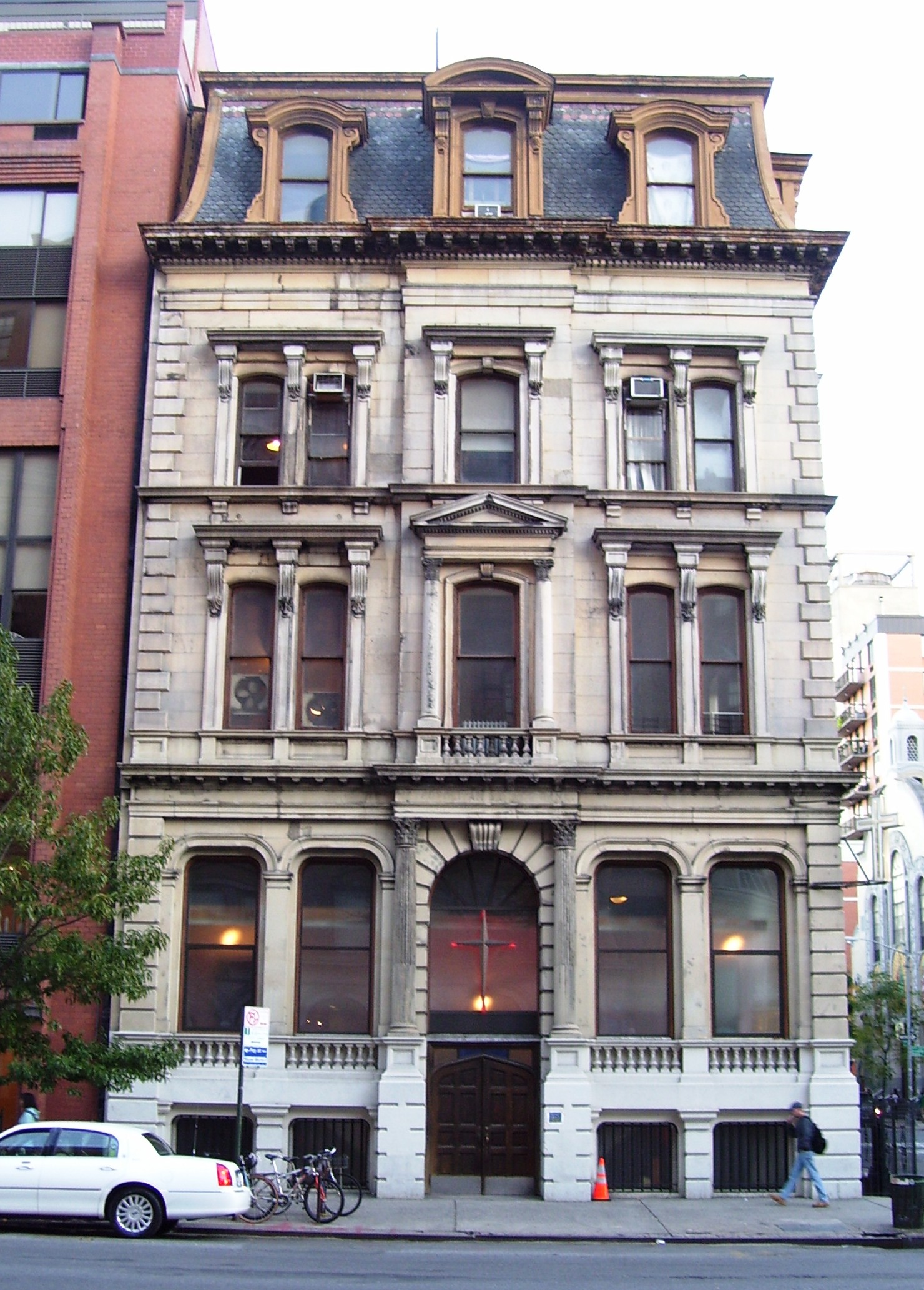 The marble-clad building at 9 East 7th Street or 61 Cooper Square in the East Village, Manhattan, New York City, now used by the First Ukrainian Evangelical Pentecostal Church, was built in 1867 as the Metropolitan Savings Bank, designed by Carl Pfeiffer in the Second Empire style. It has been a church since 1937, and a New York City landmark since 1969. (Sources: AIA Guide to NYC (4th ed.), NYC Landmarks (4th ed.))